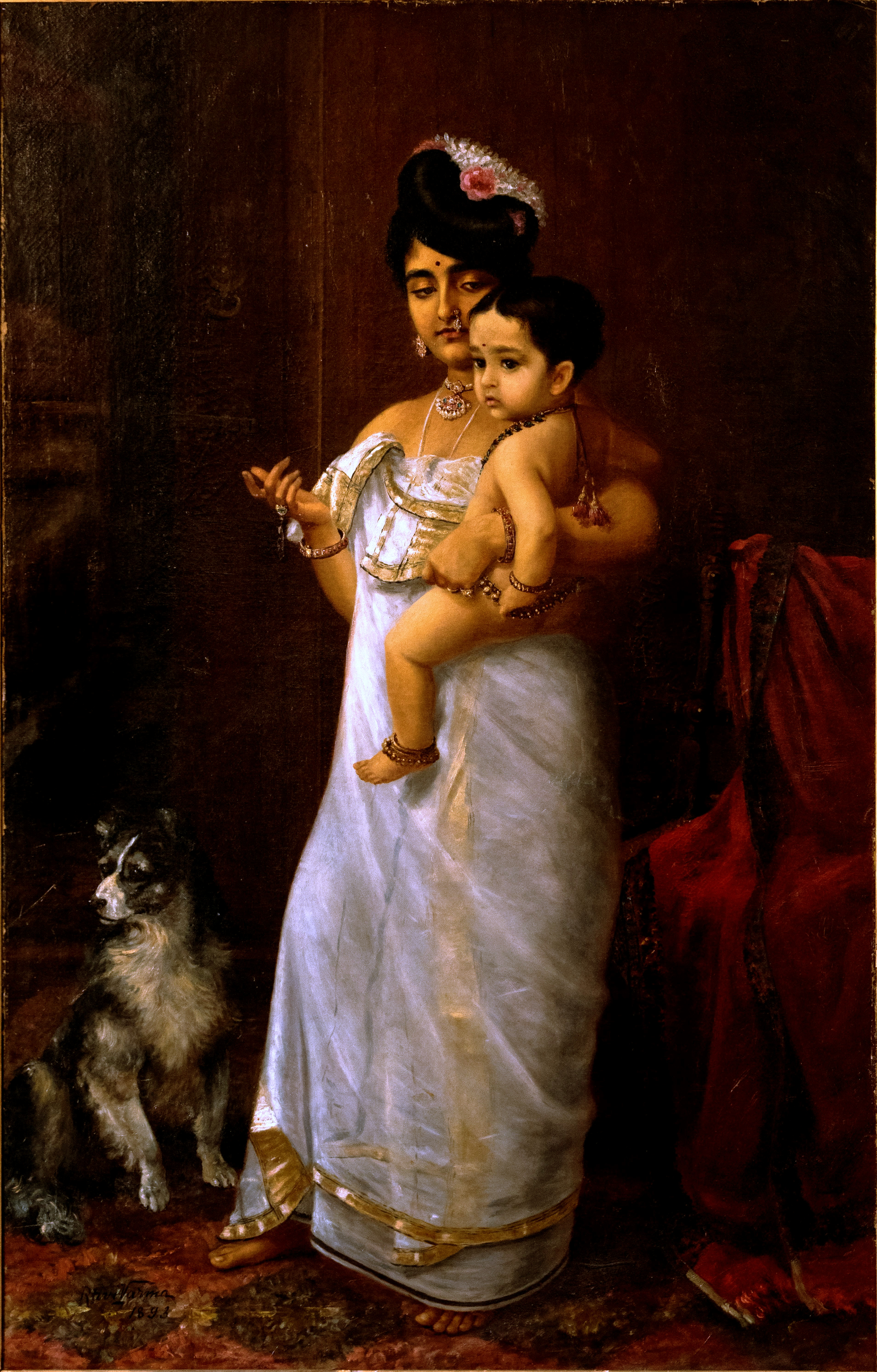 Portrait of Mahaprabha Thampuratti of Mavelikkara, Raja Ravi Varma's daughter holding her son Marthanda Varma. A dog at the foot of the woman looks out. She is standing on a carpet. There is a chair with red fabric draped over it behind the woman. There is a bed in the background.